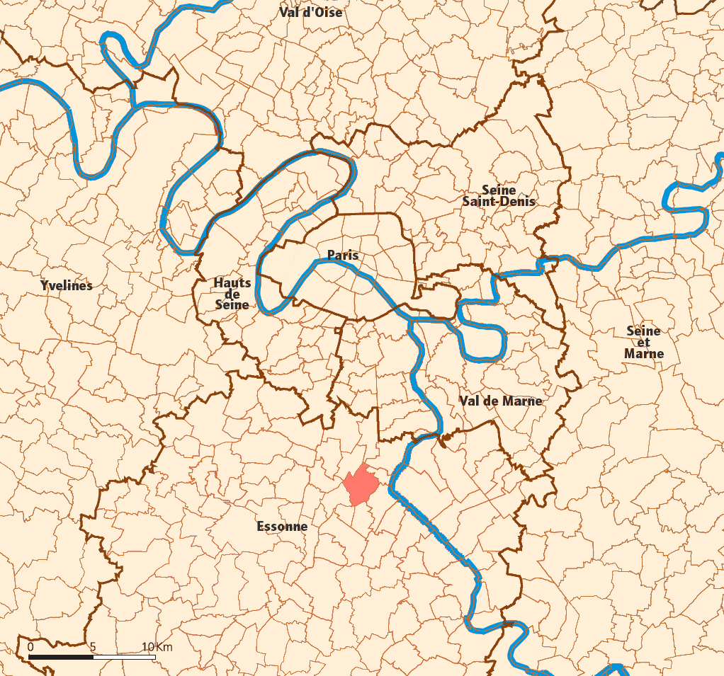 Created map myself.